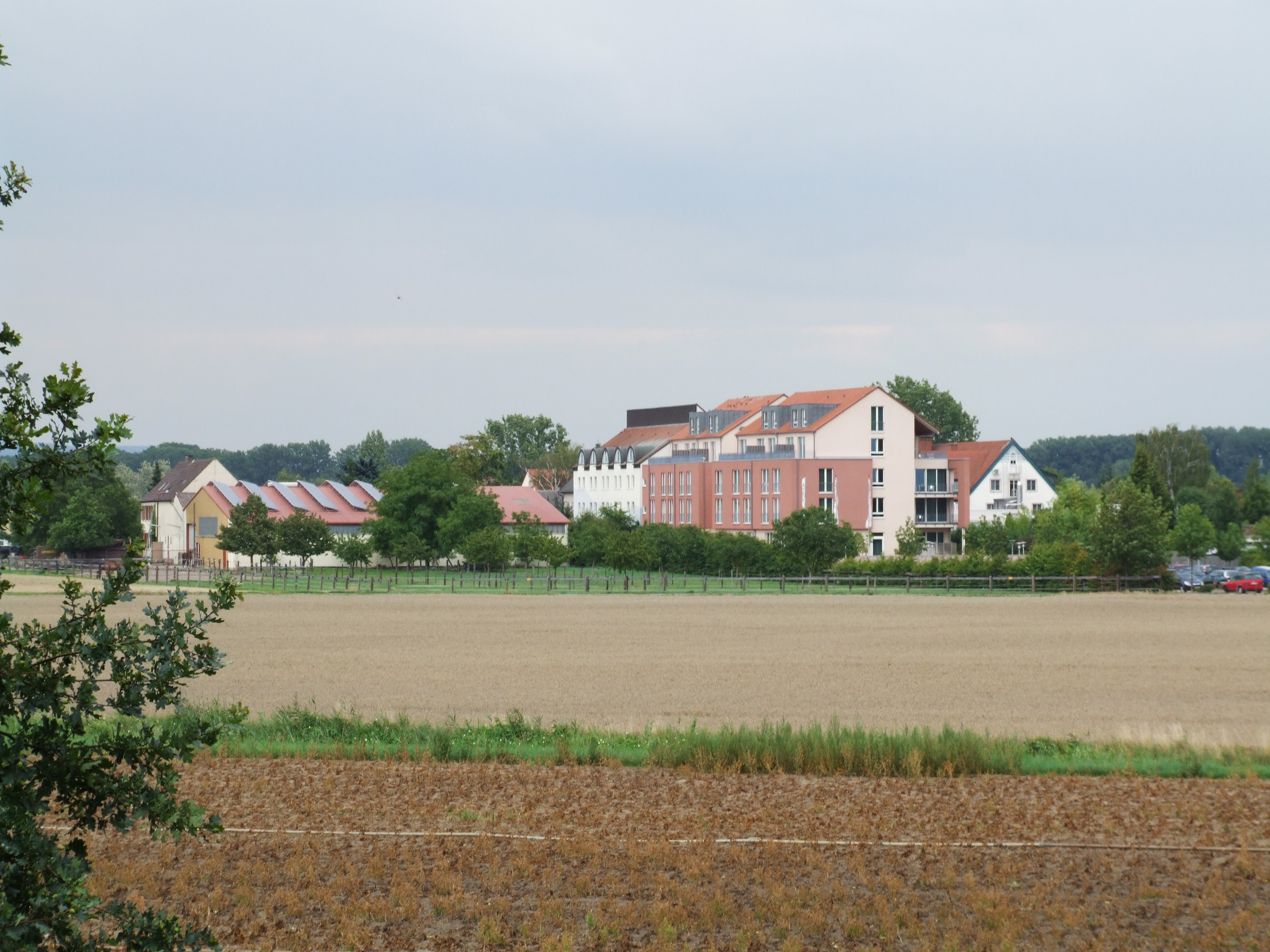 Binshof in area Binsfeld, Speyer, Germany